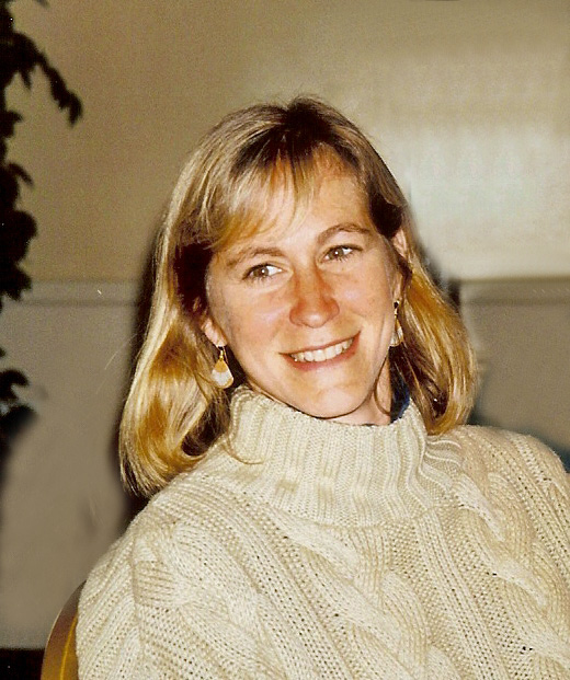 Dr. Lori Altshuler at the Stanley Foundation Bipolar Network PI Meeting 1997, Los Angeles CA